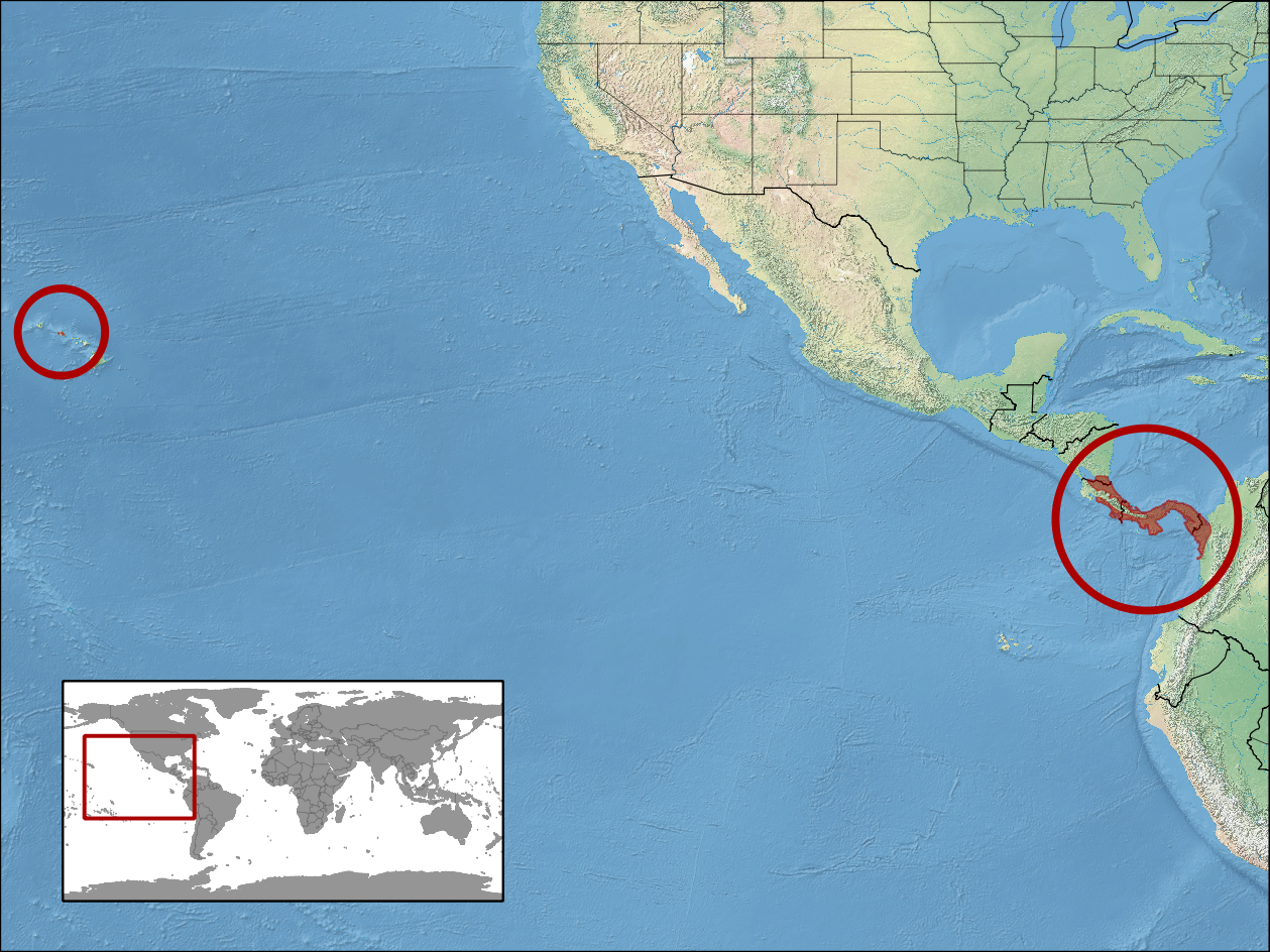 geographic distribution of Dendrobates auratus (Native: Colombia; Costa Rica; Nicaragua; Panama / Introduced: United States)